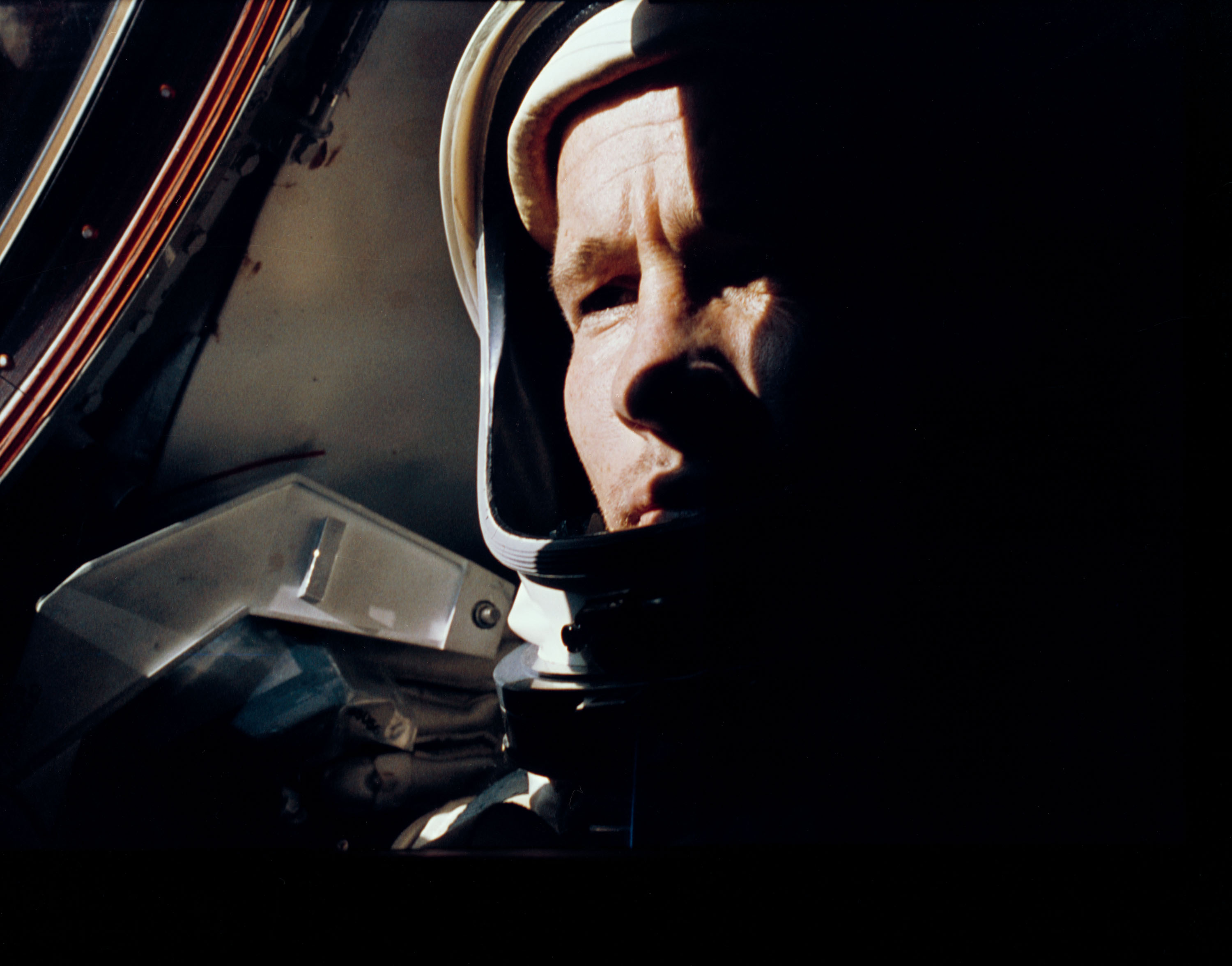 S65-30548 (3-7 June 1965) --- Astronaut Edward H. White II, Gemini IV pilot, is photographed onboard the Gemini-Titan 4 spacecraft during the four-day Earth-orbital mission. Photo credit: NASA